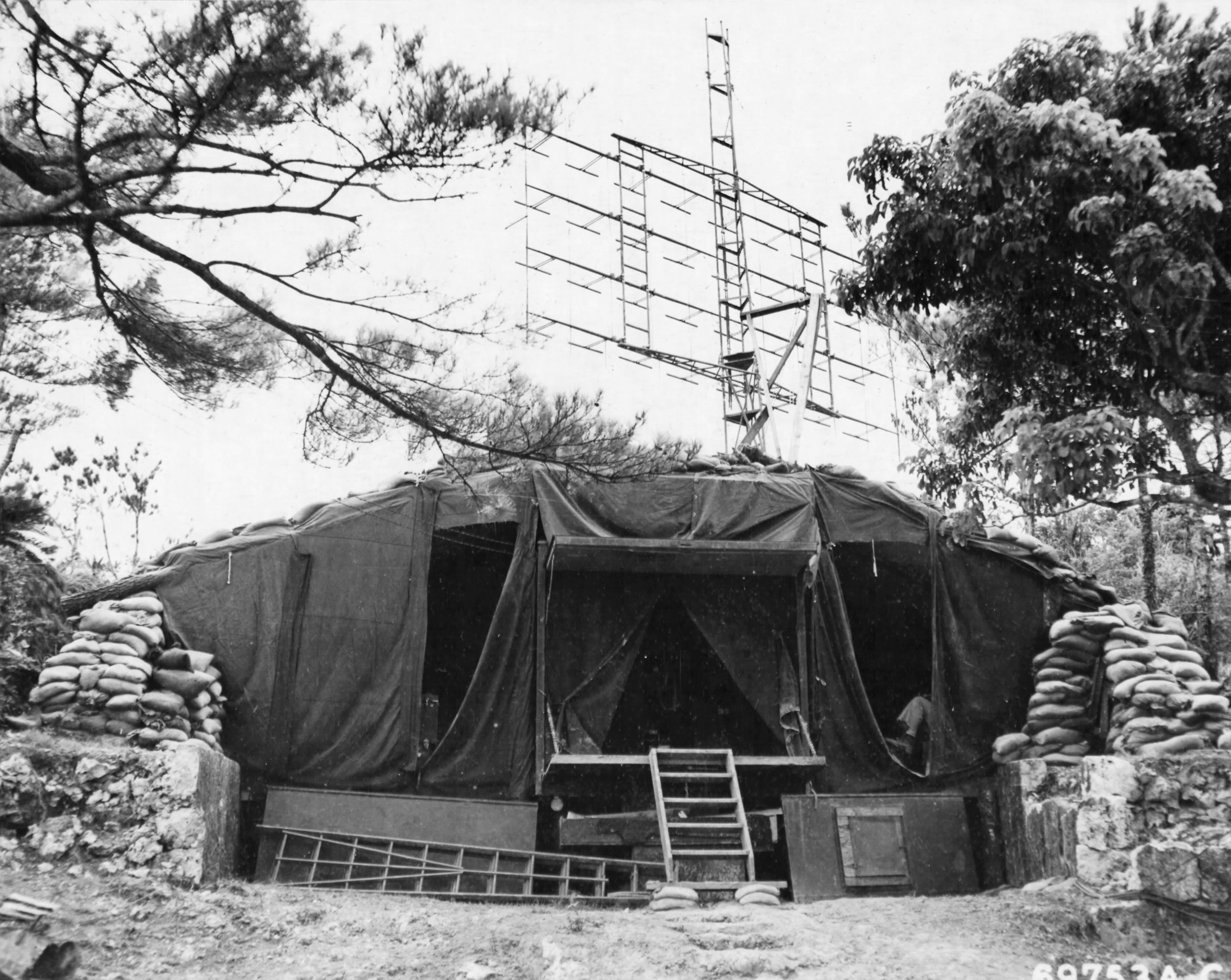 This radr van houses the transmitter, keyer and radar scopes of the 270 DA radar unit of Marine Air Warning Squadron 6 (AWS-6). It is well camoflaged under trees and pretected by sand bags. The station is on top of a hill overlooking the east coast of Okinawa, Ryukyu Retto, near Awase Airfield - 6 August 1945.